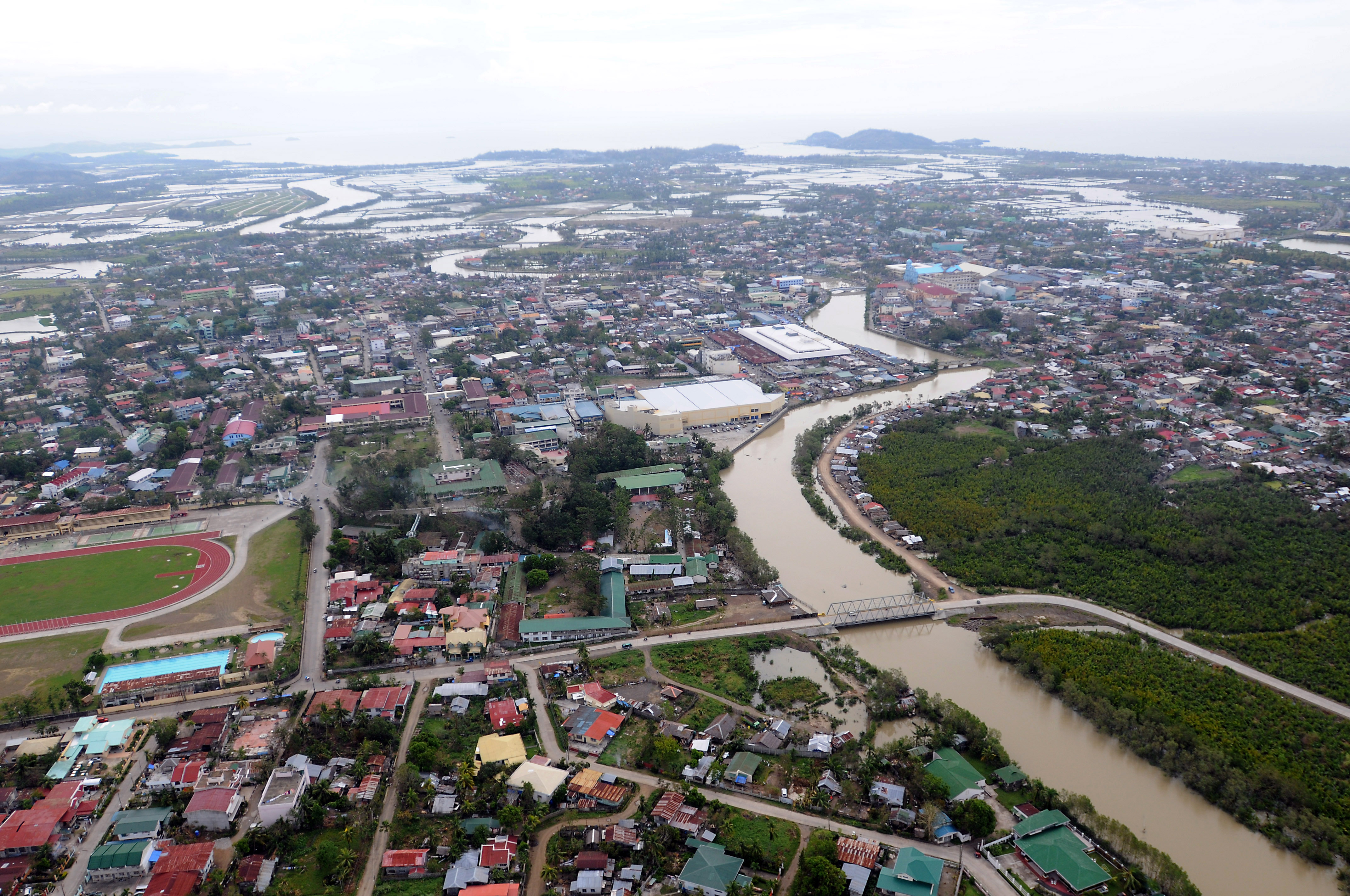 ROXAS, Philippines (June 26, 2008) High above Roxas, standing water is visible after the wake ofTyphoon Fengshen. The northern part of the island was heaviest hit by the typhoon. At the request of the government of the Republic of the Philippines, the Nimitz-class aircraft carrier USS Ronald Reagan (CVN 76) is off the coast of Panay Island providing humanitarian assistance and disaster response. Ronald Reagan and other U.S. Navy ships are operating in the 7th Fleet area of responsibility to promote peace, cooperation and stability.